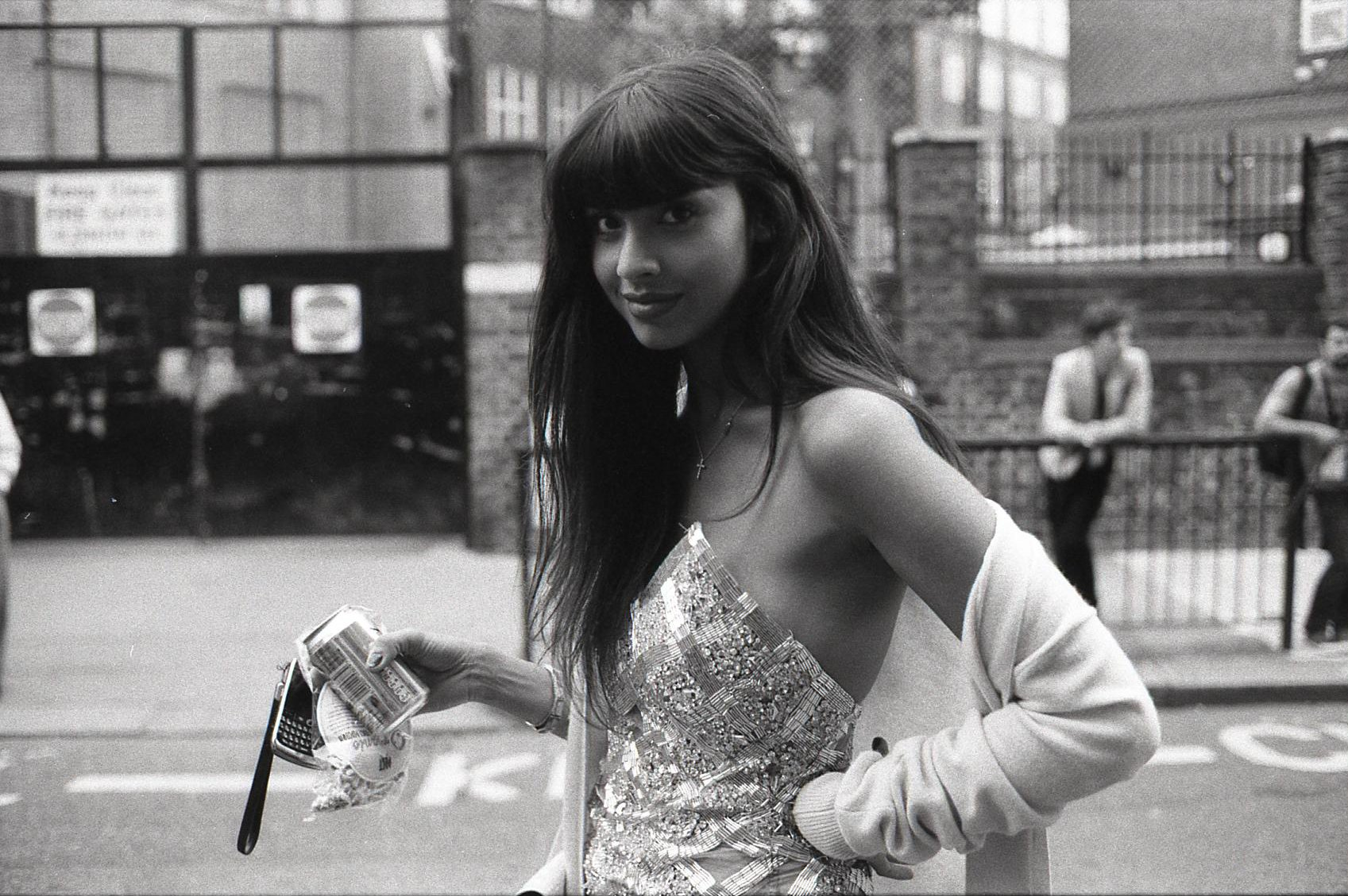 Jameela Jamil at London fashion week, 9 December 2009